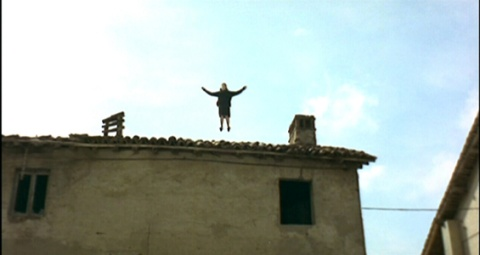 Screenshot from Teorema directed by Pier Paolo Pasolini